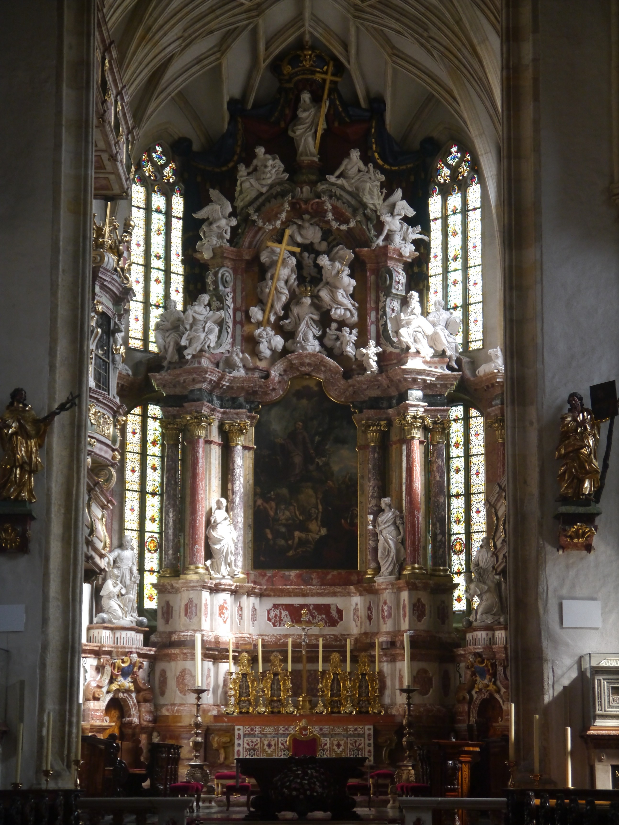 High Altar of the Cathedral St. Aegidius, Graz